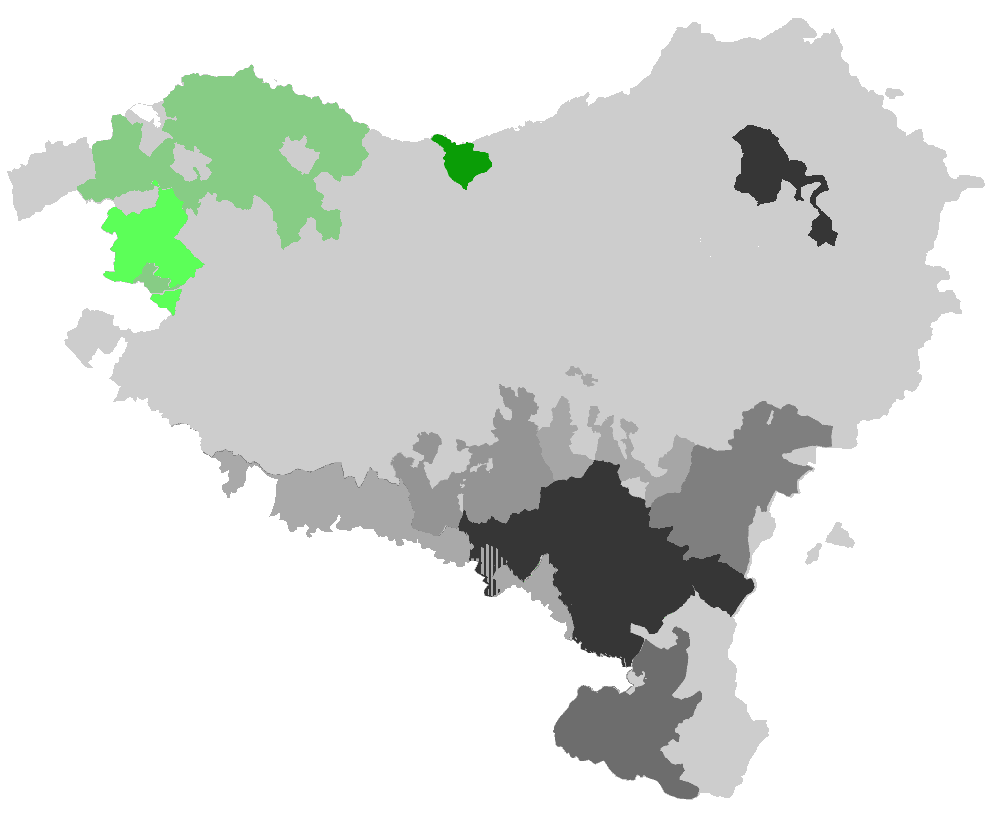 Map showing the distribution of Txakoli in the Basque Country.